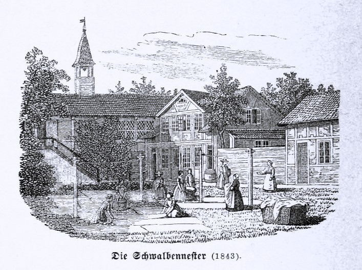 Rauhes Haus, girls' working area